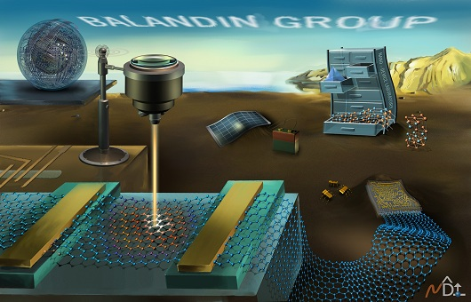 Dr. Balandin's Group logo